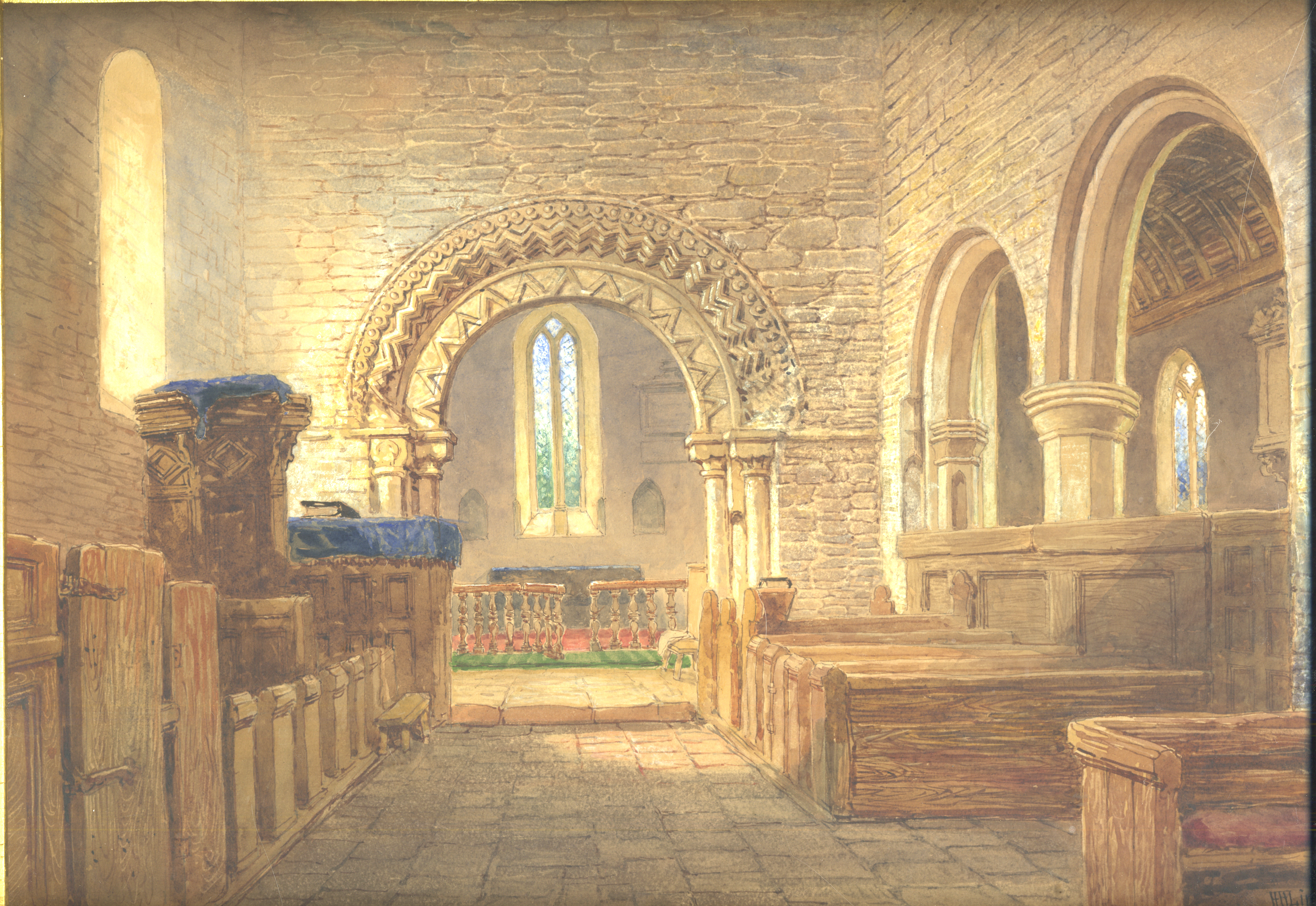 Inside the nave of St Martin’s Church, Holt, Worcestershire, looking east to the chancel. See Rediscovering the Lines Family - Exhibition catalogue - 2009. Original in Worcester City Art Gallery and Museum. See also